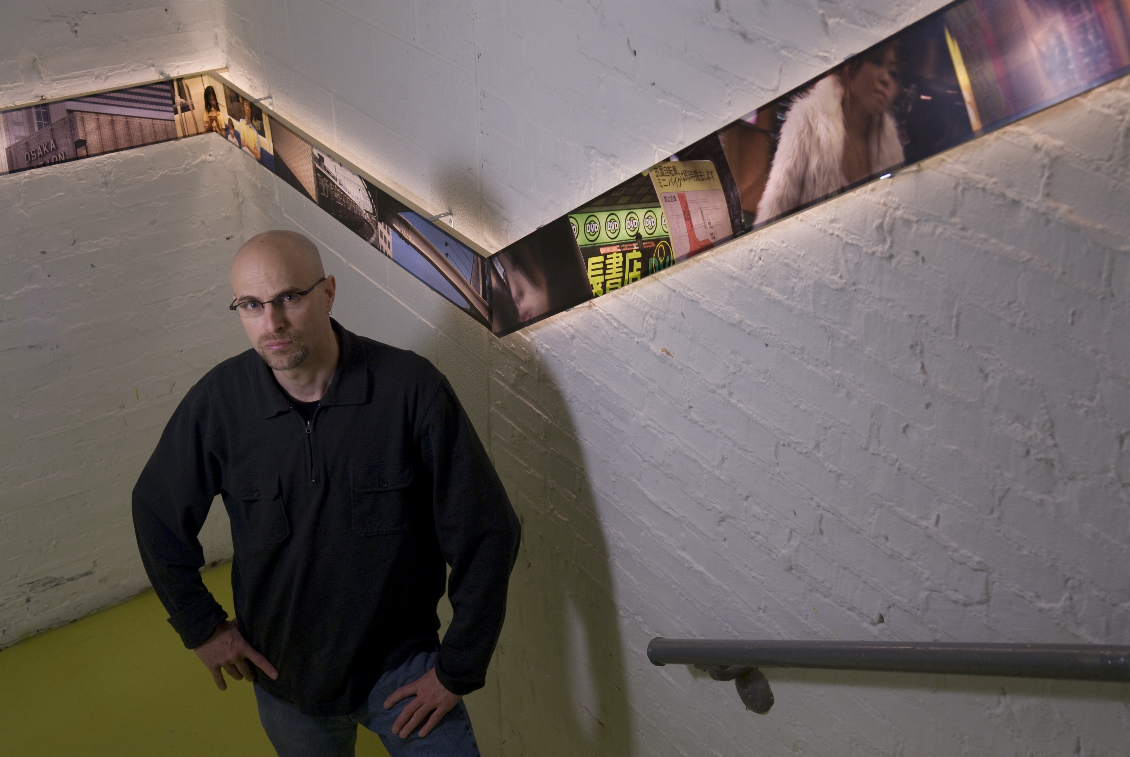 Artist Glenn Wexler with his work Transit II at the Hyde Park Art Center]